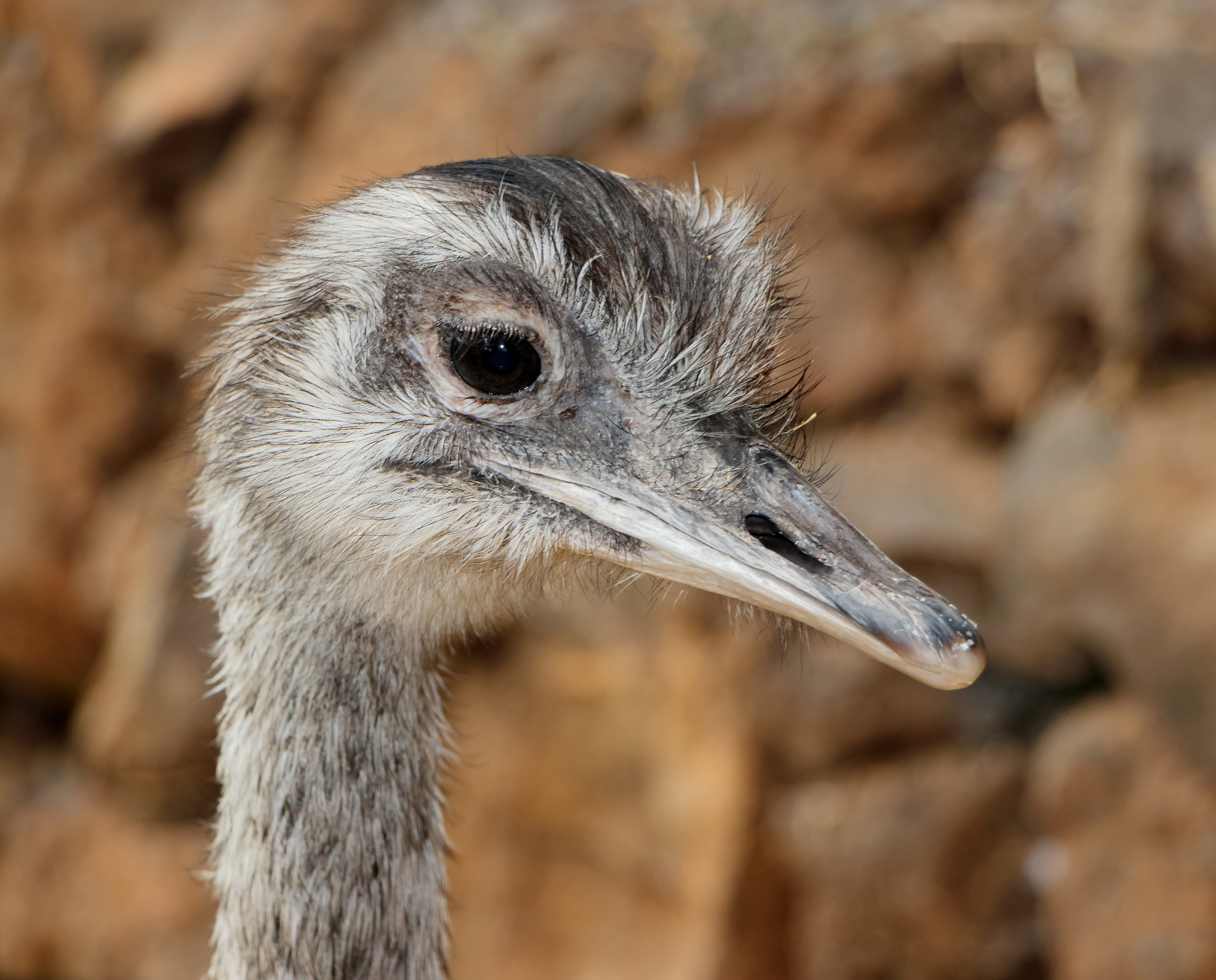 Rhea americana (Linnaeus, 1758), Greater rhea; Maroparque, Breña Alta, La Palma, Canary Islands, Spain.